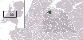 Location of Abcoude